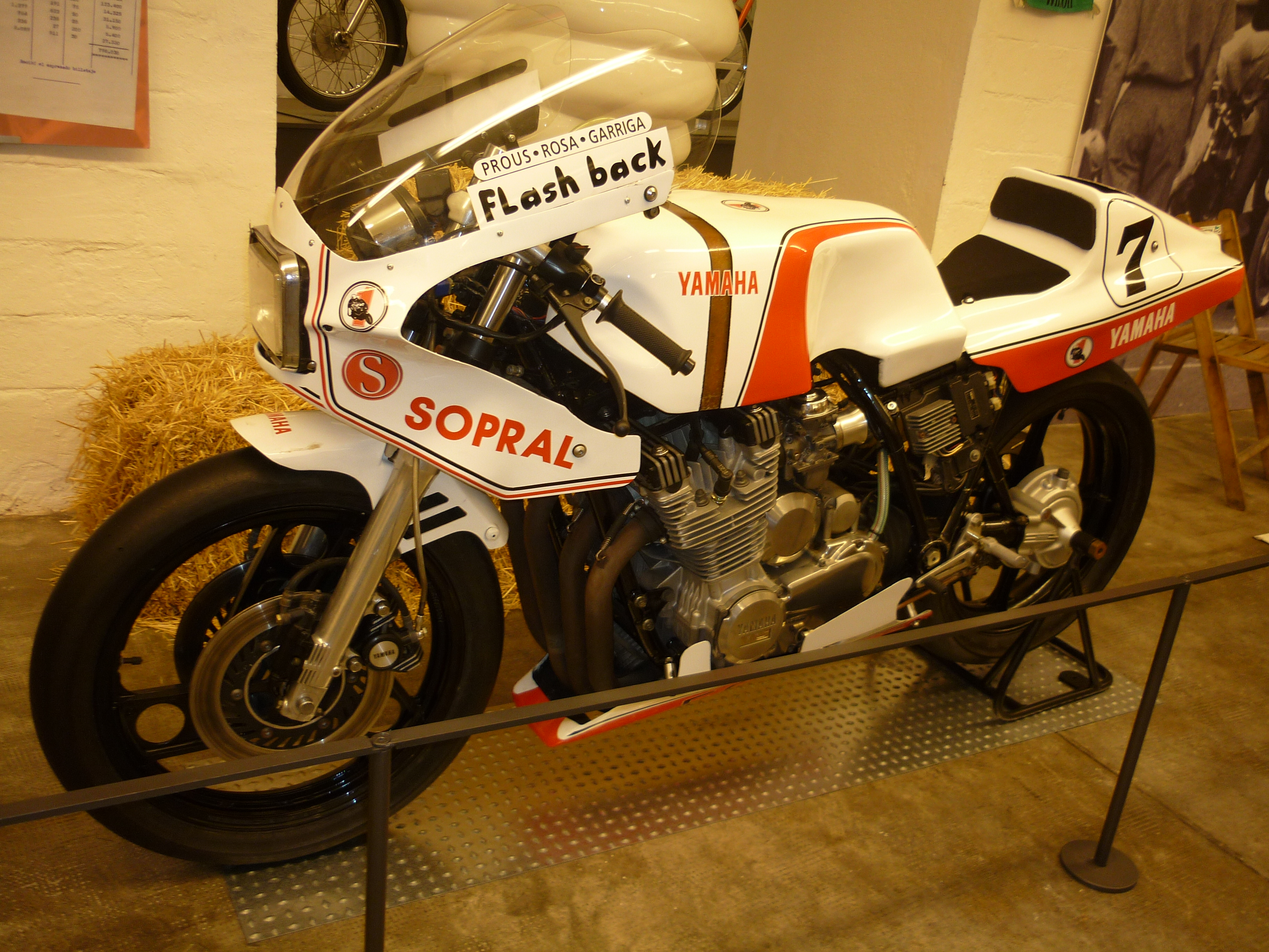 Yamaha XJ-900 1000cc. This bike was ridden by Joan Garriga, Ferran Prous and Josep Manuel Rosa at XXIX 24 Hours of Montjuïc, on 1983